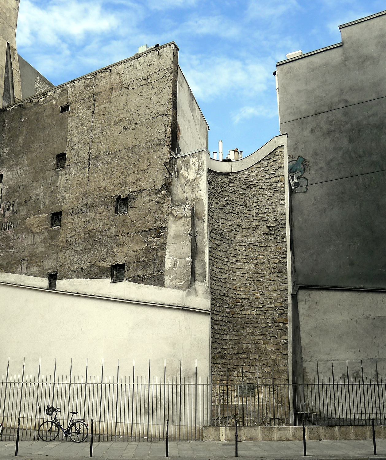 Louvre street (Philippe-Auguste tower) - Paris